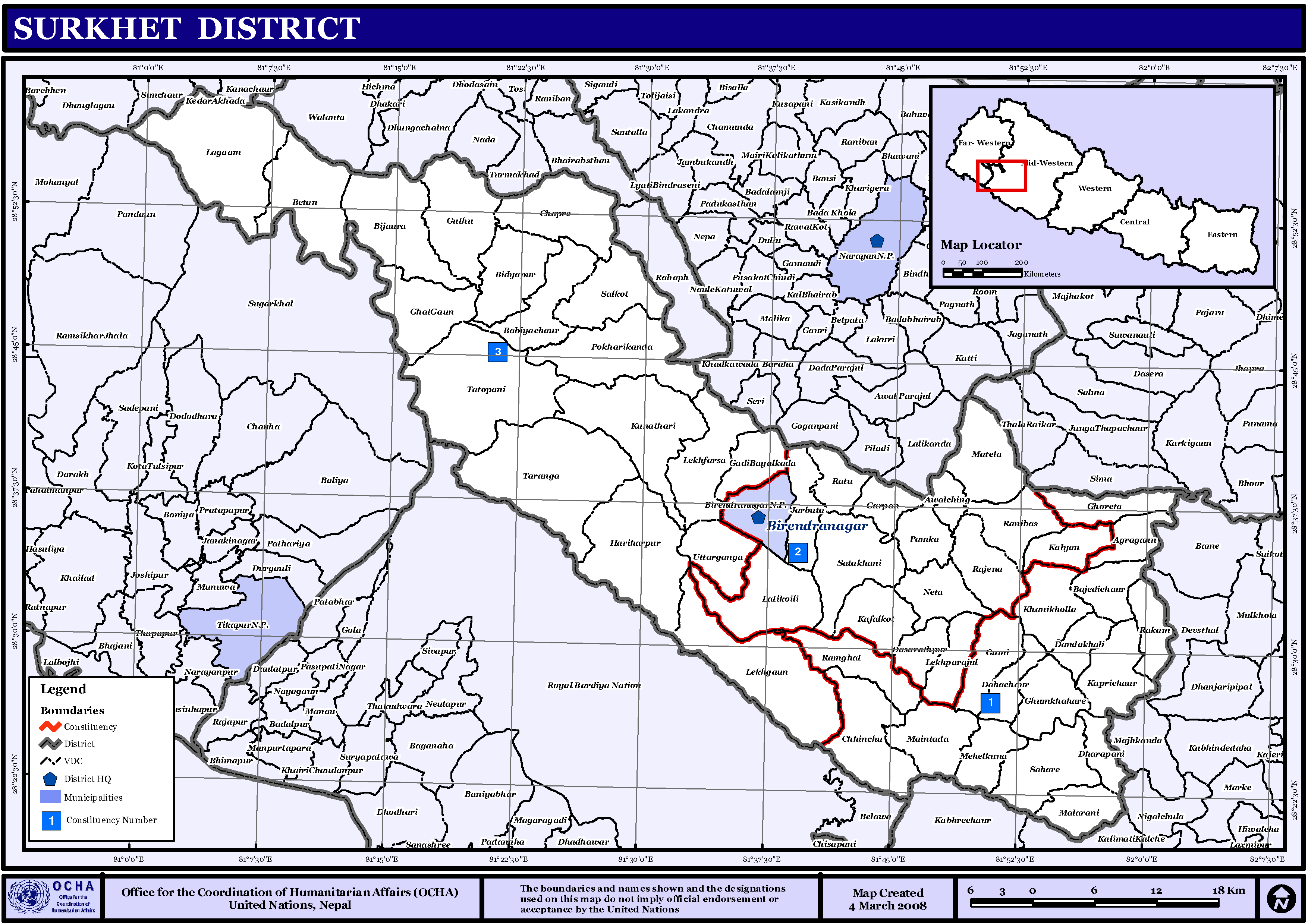 Map displaying Village Development Committees in Surkhet District, Nepal